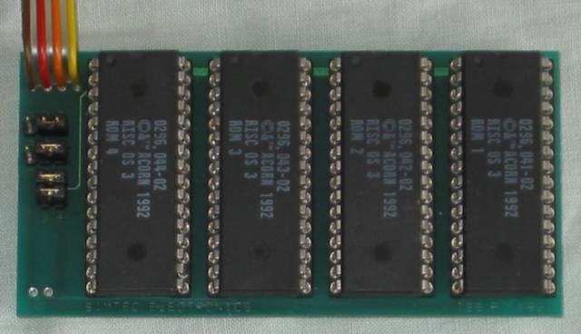 Simtec RISC OS 3 ROM Carrier with RISC OS 3.10 ROMs.The Archimedes A300 computers were only designed to use 1 Mbit ROMs, unlike the A440 and later A410/1 range. RISC OS 3 was supplied in 4 Mbit ROMs so a carrier board was needed to install the ROMs in an A300. Several suppliers produced carrier boards, this one is from Simtec. The upper picture shows the board with RISC OS 3.10 ROMs installed.The fitting instructions for the Simtec RM Carrier board are HERE .